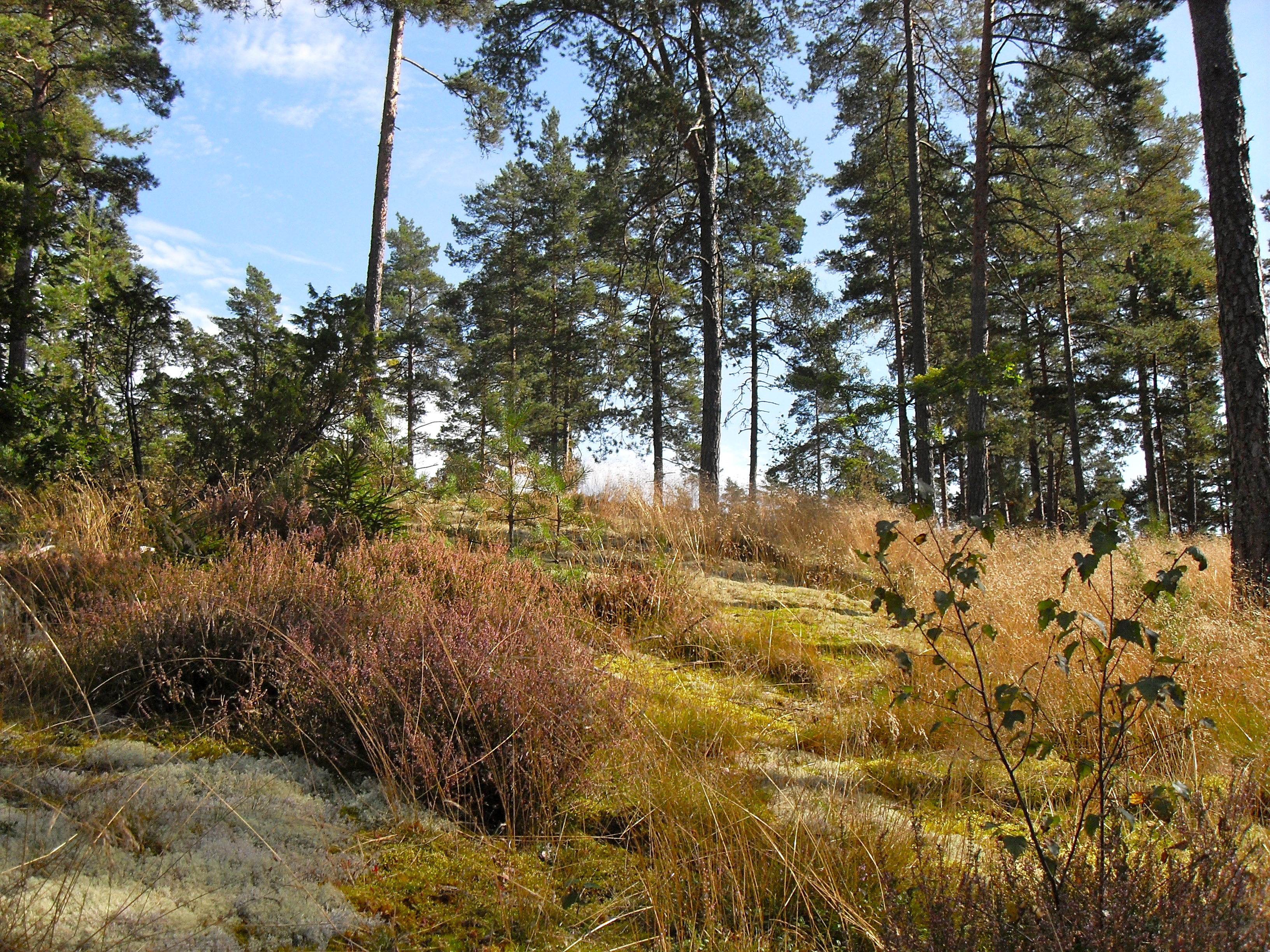 landscape att hiking route tjustleden